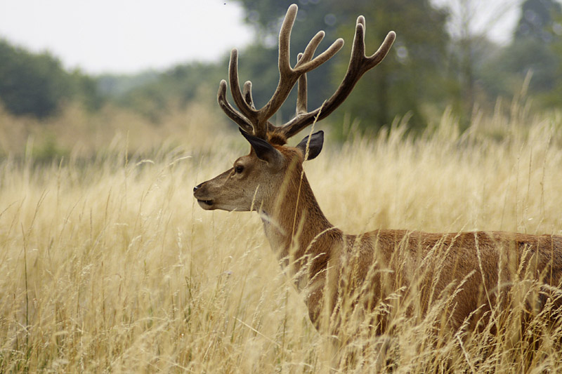 Fallow deer in Bushy Park